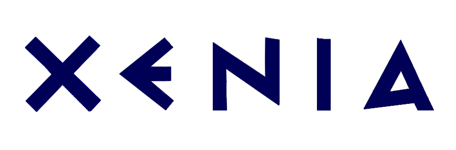 Second logo of the defunct company Xenia